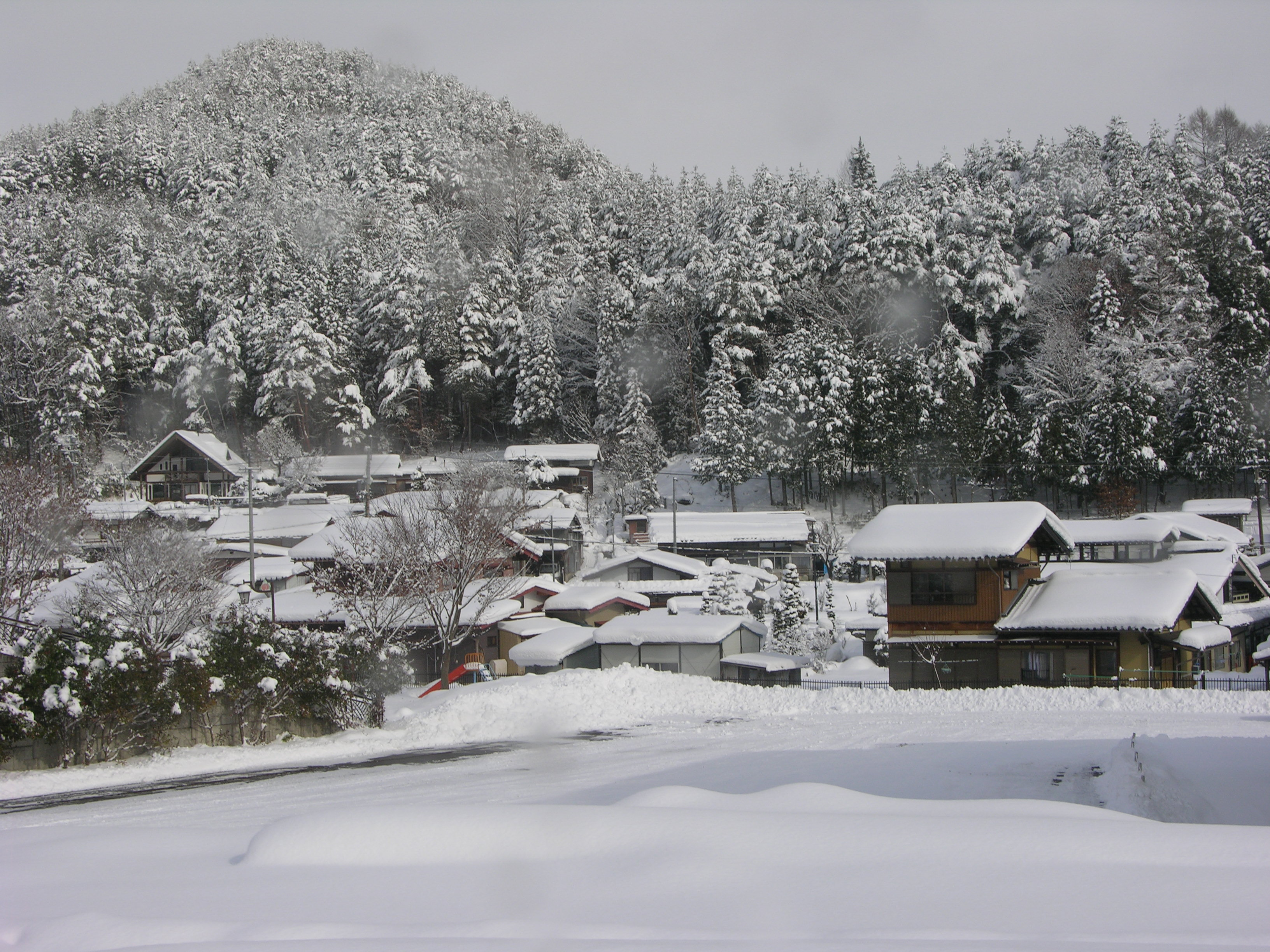 Author: Zaida Montañana, December 2005. Camera Nikon Coolpix 8 MPixel